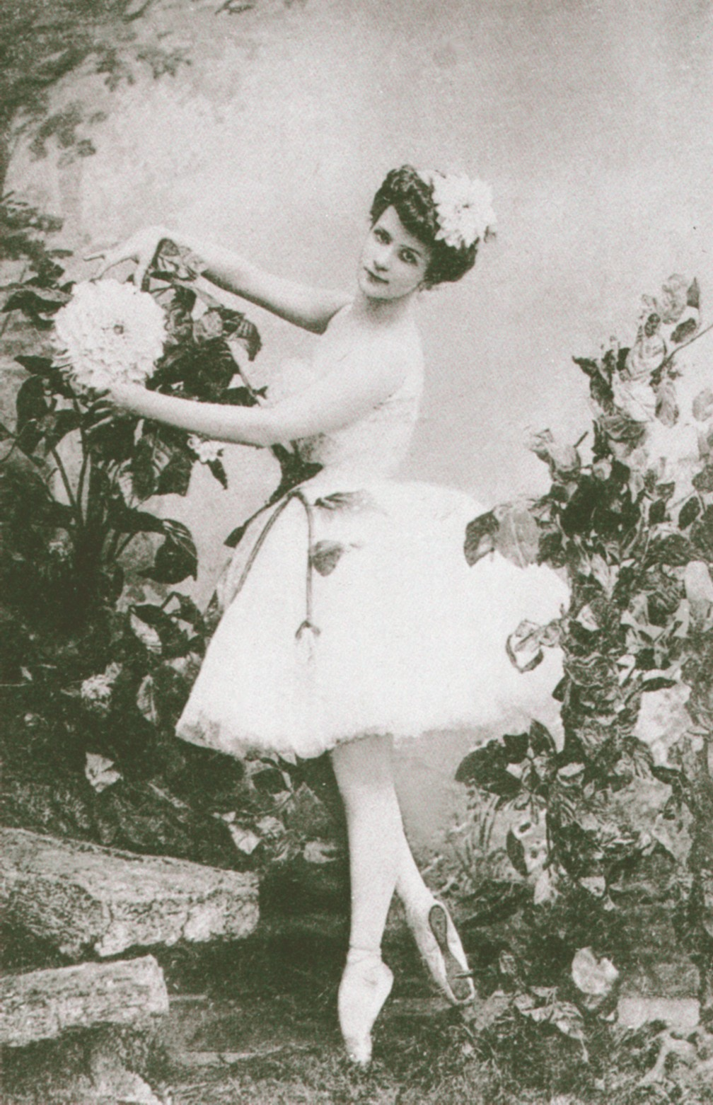 The ballerina Lyubov Egorova (1880-1972) costumed for the danseur Pavel Gerdt's (1844-1917) revival of the Ballet master Marius Petipa (1818-1910) and the composer Cesare Pugni's (1803-1870) ballet "Le Dahlia Bleu".